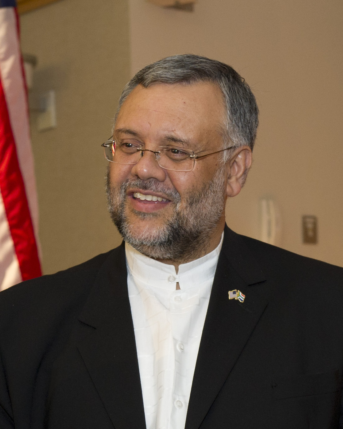 Secretary of Defense Leon Panetta speaks with South African Ambassador Ebrahim Rassol (center) and Imam Talib Shareef, retired chief Master Sergeant in the Air Force and 4th resident Imam for the Masjid Muhammad at the Muslim Iftar at the Pentagon, July 25, 2012. The Iftar refers to the evening meal when Muslims break their fast during the Islamic month of Ramadan. DoD photo by Erin A. Kirk-Cuomo (Released)